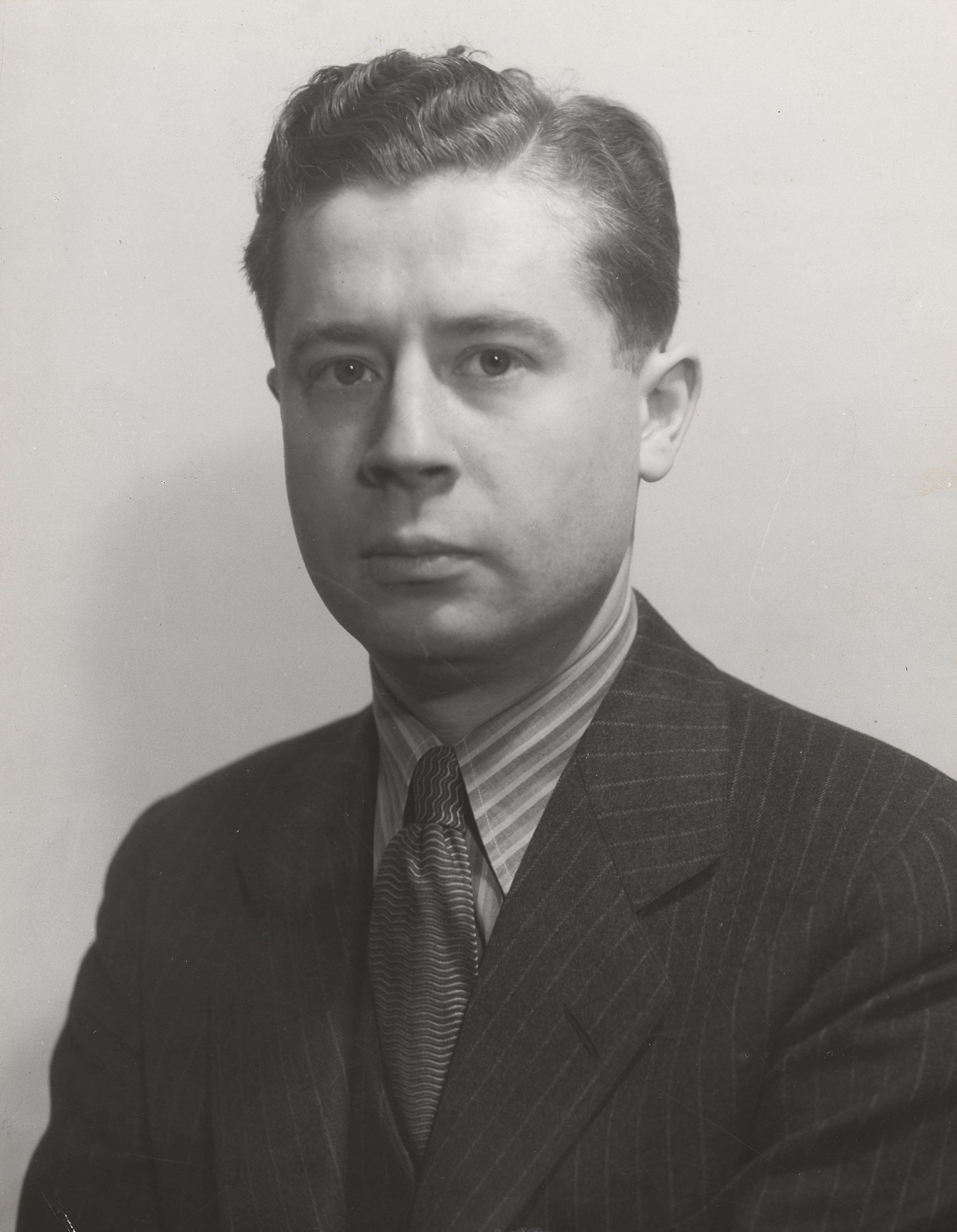 Portratit of Laning taken for the Works Progress Administration. Identification on verso, left (handwritten and stamped: Artist: Edward Laning. Identification on verso, right (handwritten and stamped): Federal Art Project W.P.A.; Photographic Division; 13 East 37th St.; New York City Location: Mural Dept.; Date: 4/12/37; Negative No.: P722.